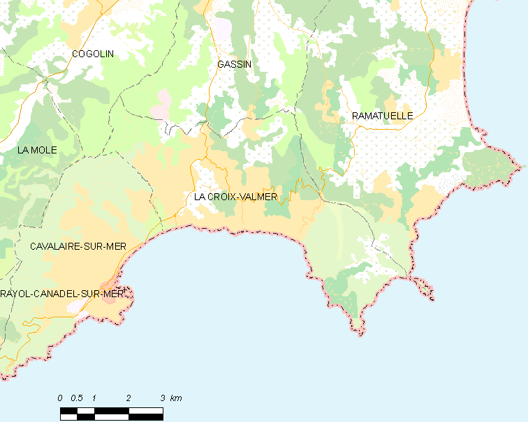 Map of French municipality La Croix-Valmer